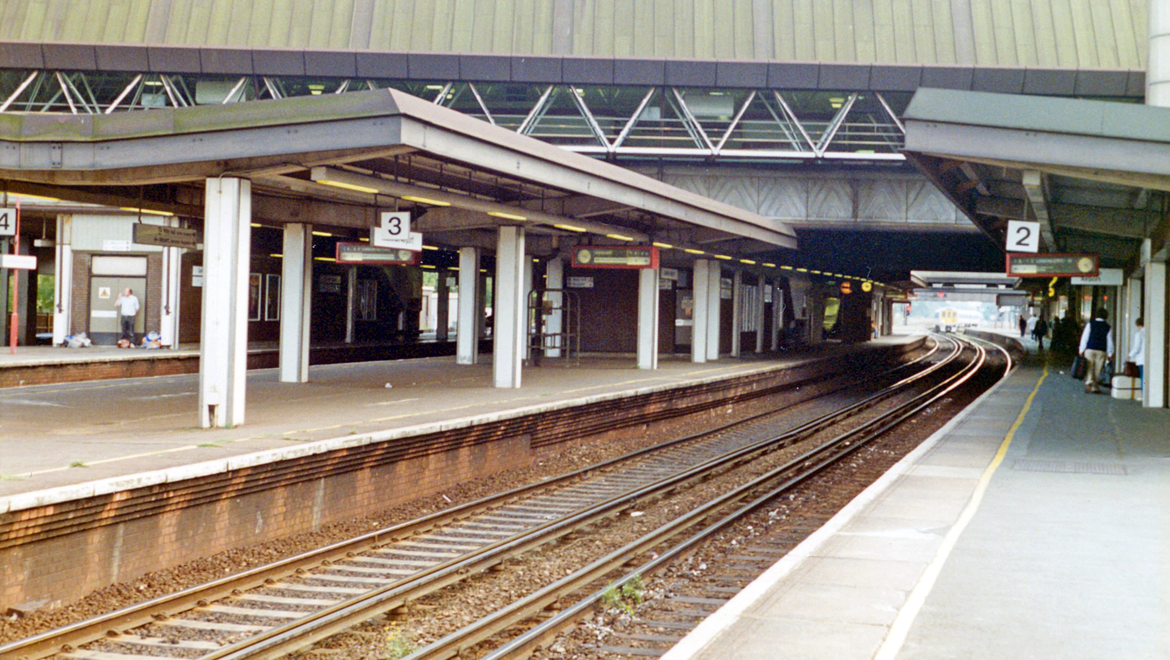 Gatwick Airport Station, 1995. View southward, towards Brighton etc.